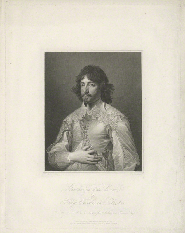 Line engraving of James Hamilton, 1st Duke of Hamilton by Charles Theodosius Heath, published by Hurst & Robinson, after Sir Anthony van Dyck